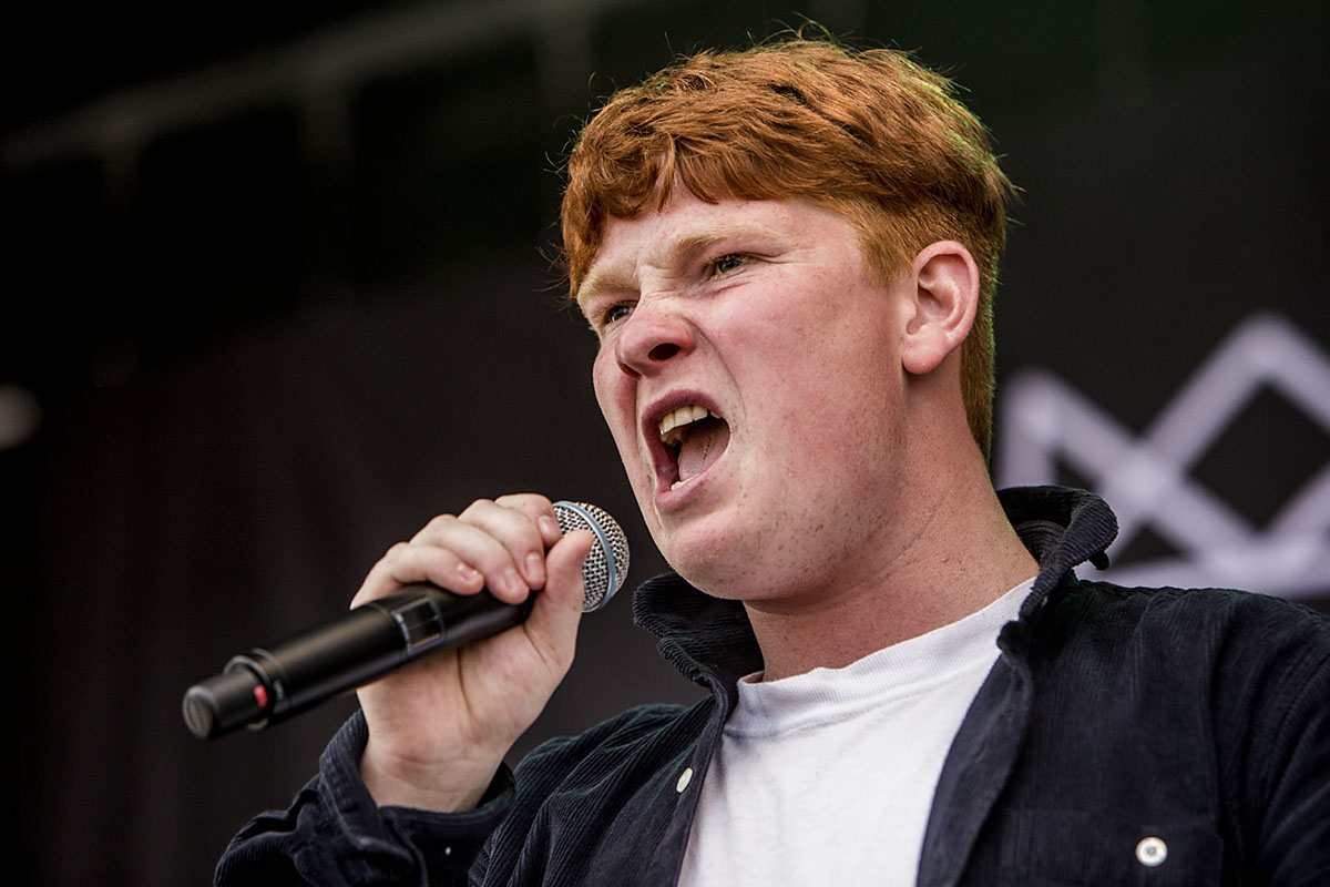 Karl William at Roskilde Festival 2014